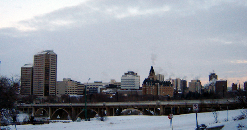 Broadway Bridge and the Central Business Distric, in the Core Neighbourhoods SDA, Saskatoon, Saskatchewan, Canada